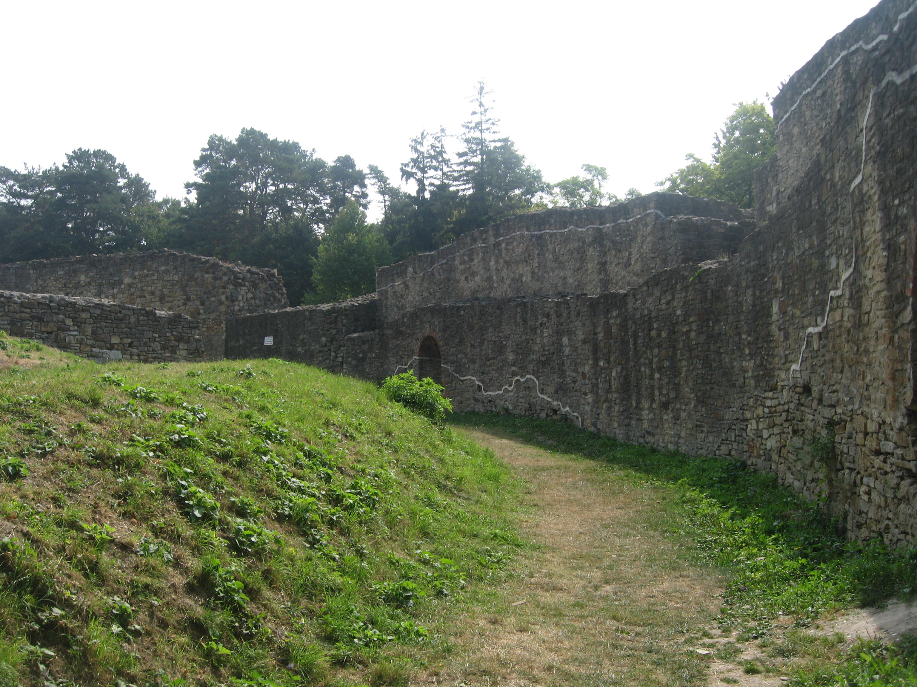 Seat Fortress of Suceava – outer fortifications on the southwestern side.